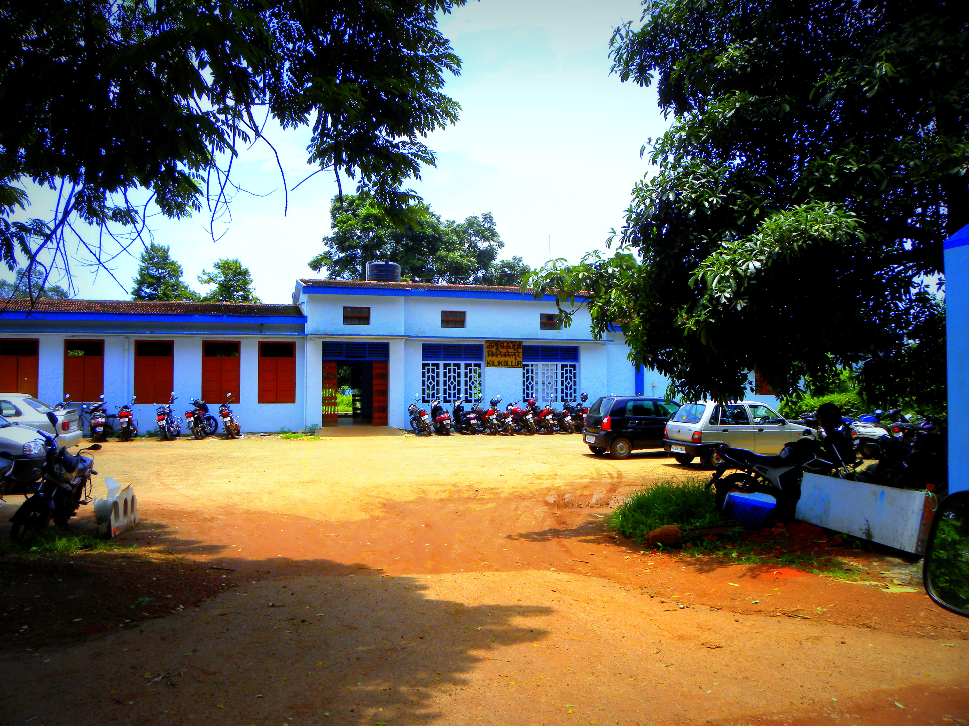 Kilikollur railway station is one among the three railway stations in the city of Kollam